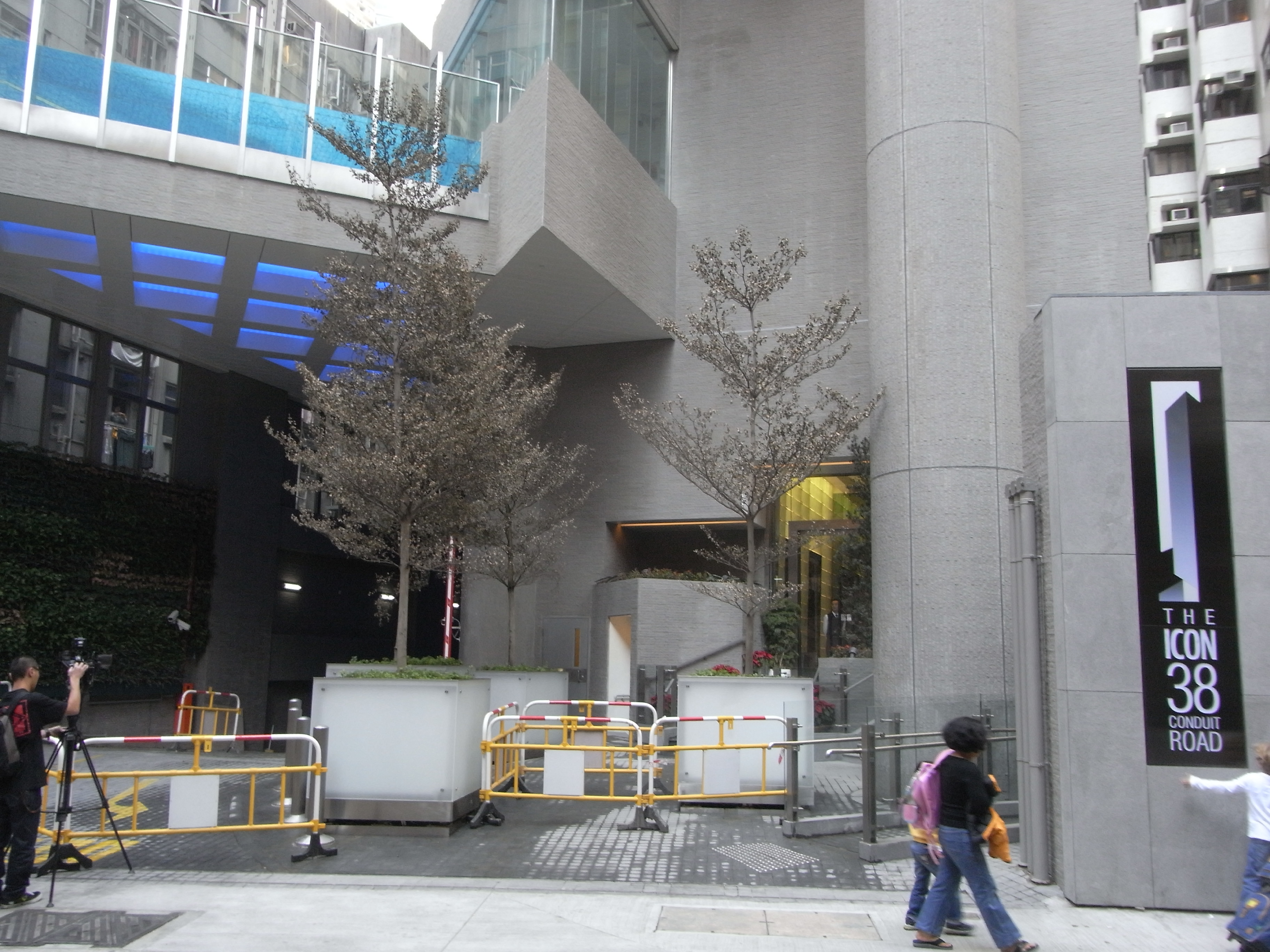 香港島干德道38號